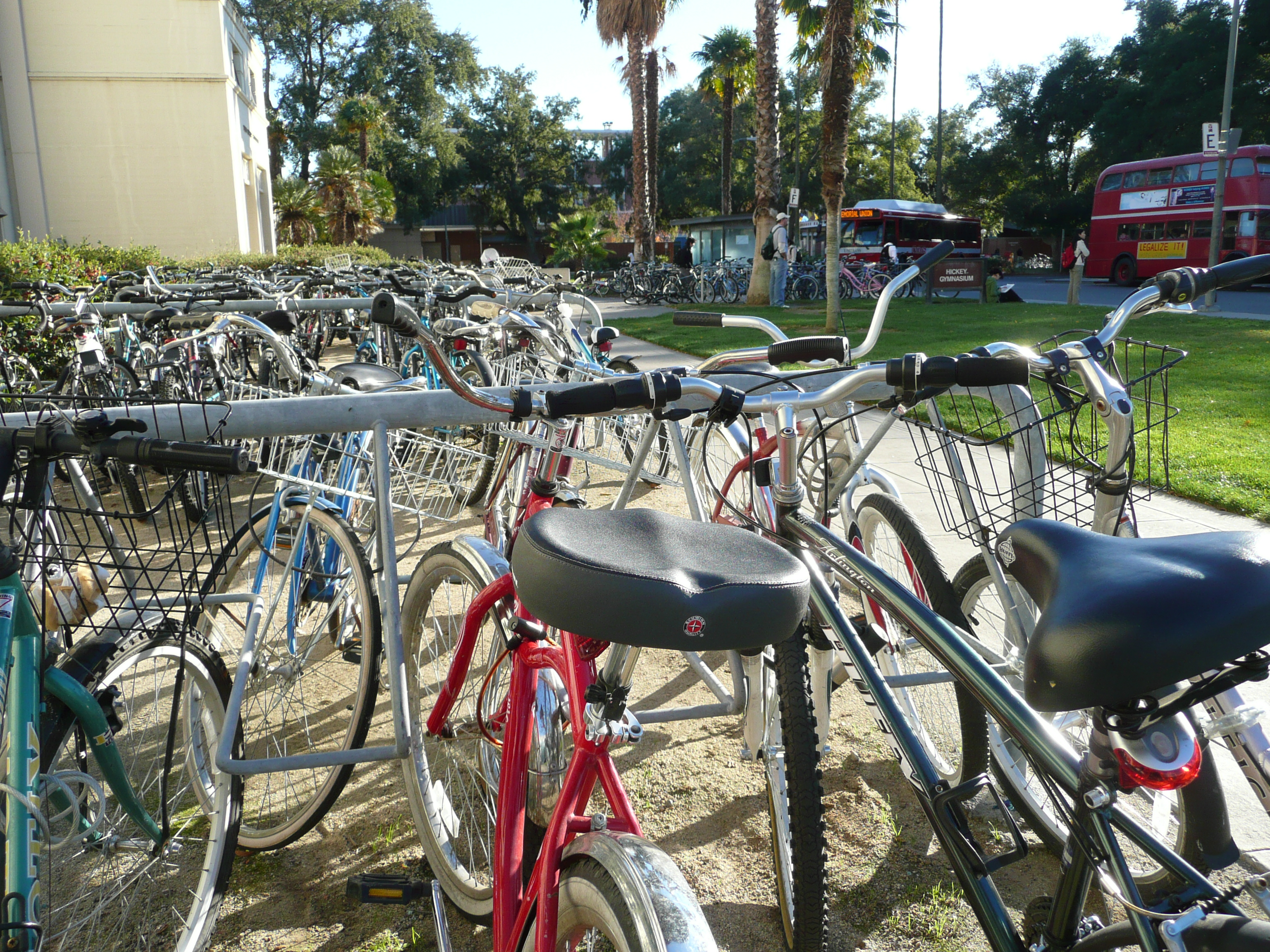 There are an estimated 40,000 bikes in Davis, the most per capita of any U.S. city. The campus is extremely quiet because of the lack of cars.